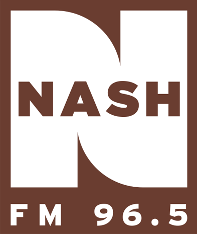 96.5 version of the Nash FM logo used by, for example, WJCL-FM Savannah, Georgia